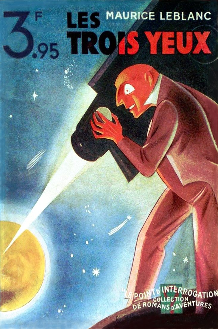 The book cover, Les Trois Yeux, written by Maurice Leblanc, illustrated by unknown author, ed. 1935 (the book was first published in 1920.)